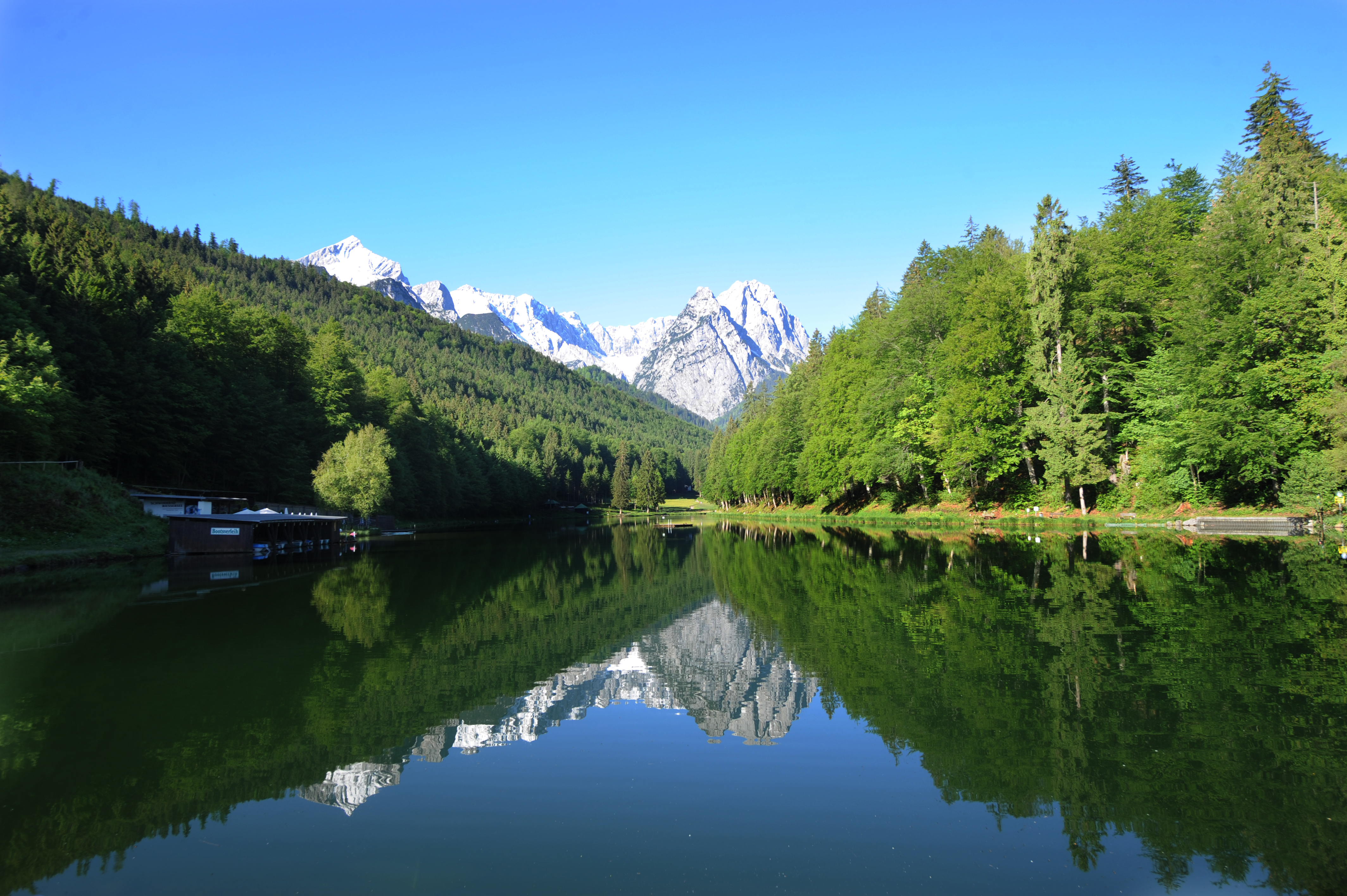 Lake Riessersee, Garmisch-Partenkirchen, Bavaria